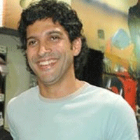 Farhan Akhtar.